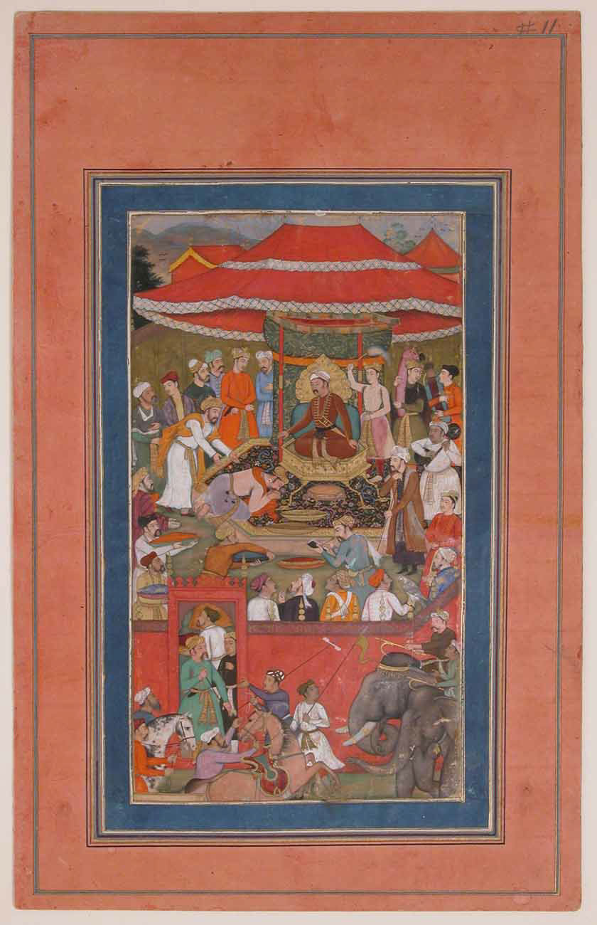 Asaf khan Presents Offerings Folio from the Davis Album, c.1604.